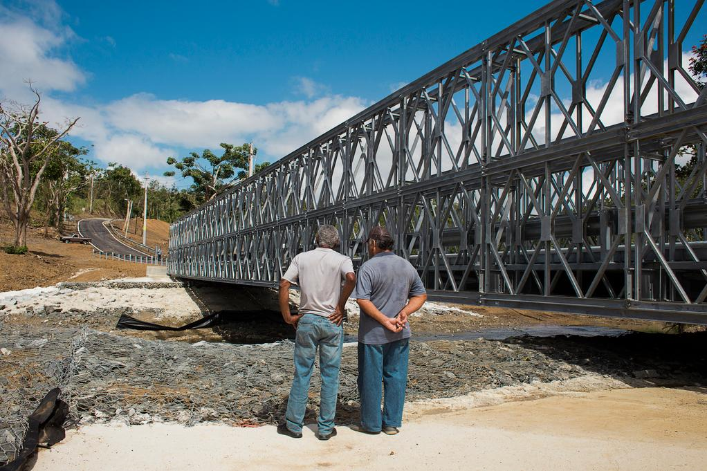 Canóvanas, Puerto Rico, April 20, 2018 - Survivors of Cambalache observe the new bridge that has been built in their community. The previous bridge collapsed from flooding due to Hurricane María. Thanks to the efforts of FEMA, the Puerto Rico Government, and the Federal Highway Administration, hundreds of families will benefit and return to normalcy, by having access to the other side of the town. FEMA/Eduardo Martínez